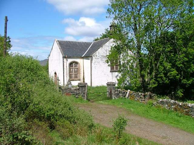 The Telford Church, Ardalum Ulva. The church was designed by Thomas Telford and built between 1827 and 1828 for a cost of £1,500. Dedicated to St. Ewan of Arstraw the nearest wing has now been partitioned off for use for worship. The remainder of the building is used as a community hall. The church boasts that in 1847 everyone on Ulva attended services including one catholic and one atheist. Isle of Ulva, Inner Hebrides.